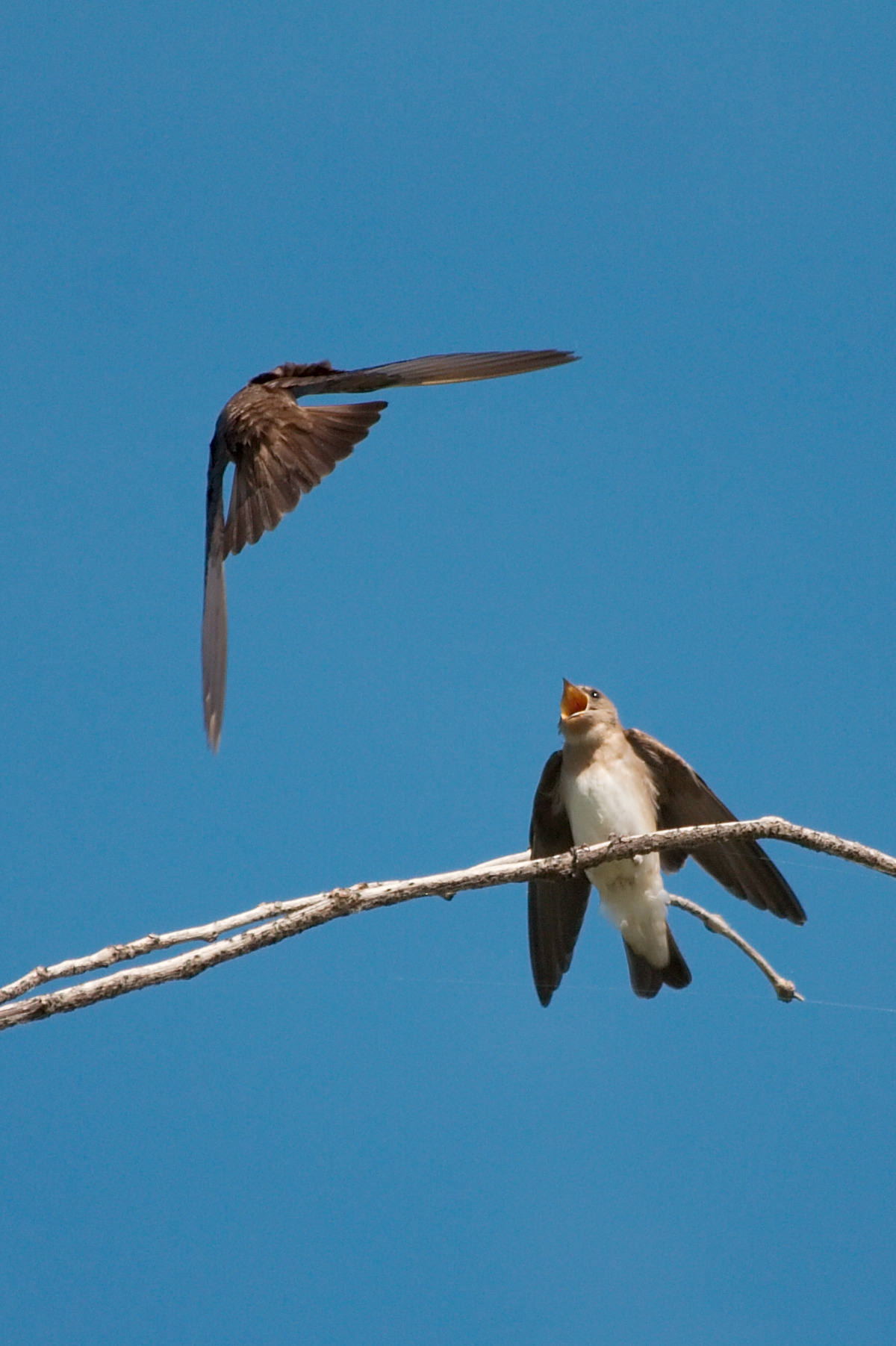 Northern rough-winged swallows (Stelgidopteryx serripennis), taken in Milwaukee, Wisconsin